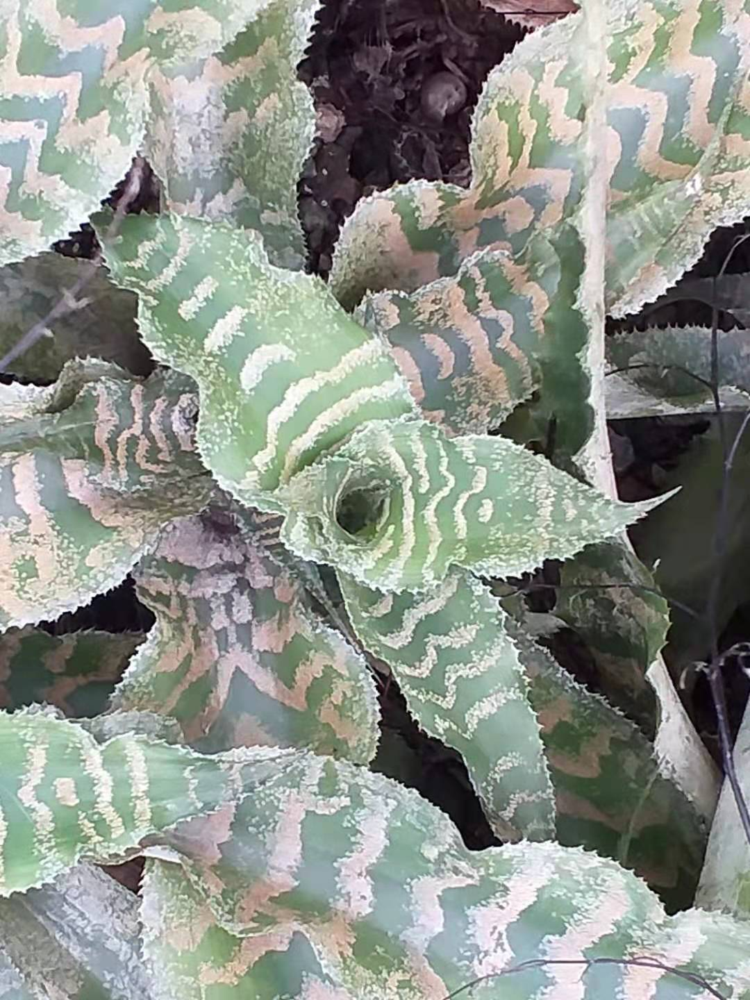 Cryptanthus zonatus. Botanical Garden of National Museum of Natural Science, Taichung, Taiwan.